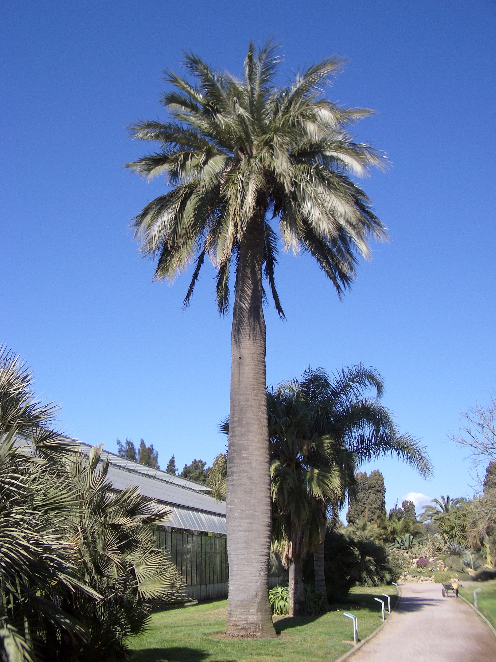 Photo of a Chilean palm (Jubaea chilensis).